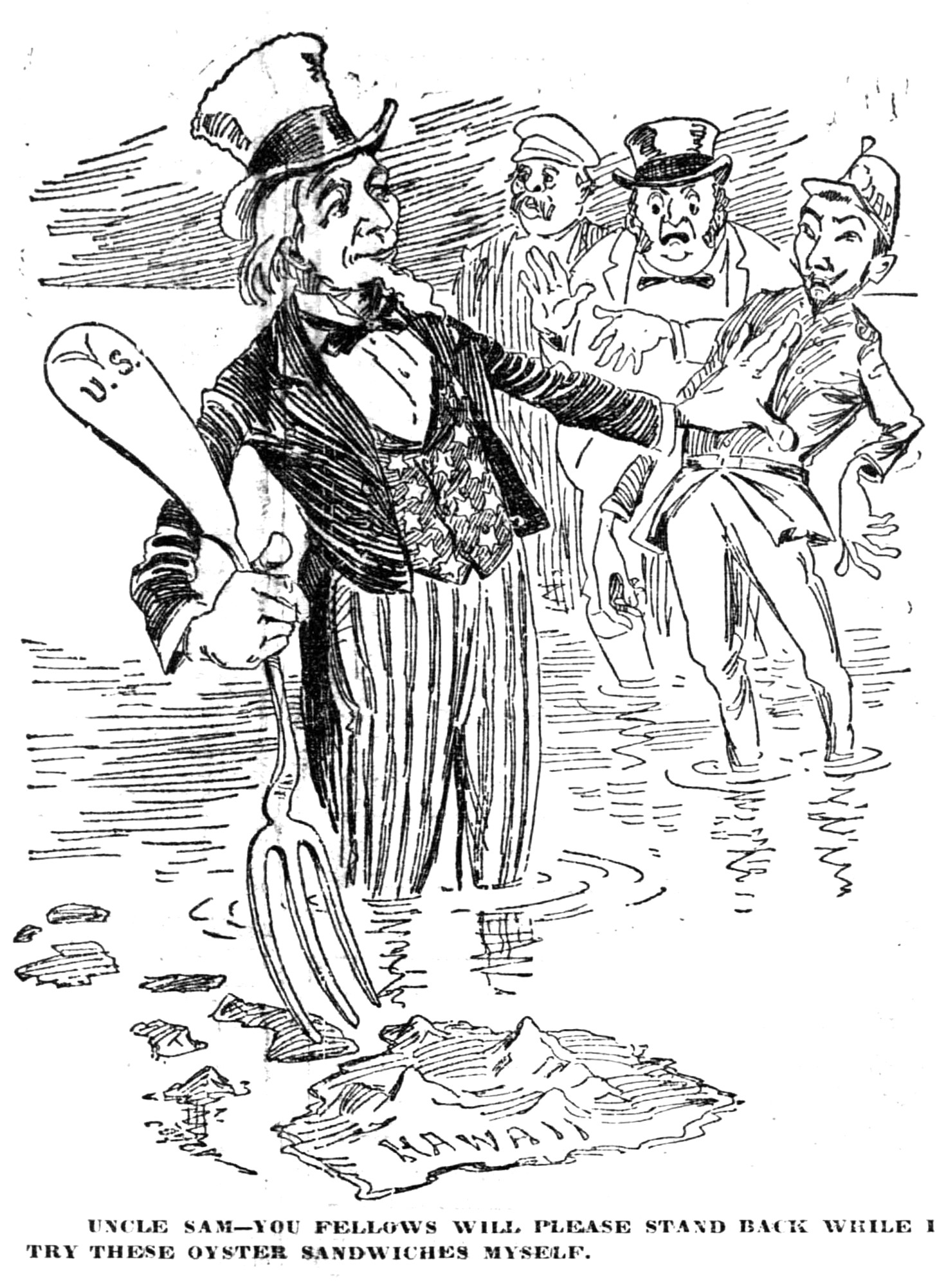 Uncle Sam gets first dibs on the "oyster sandwiches," or Hawaii, before Japan and other countries. This cartoon appeared when the United States was deciding whether to annex Hawaii as an American territory. In the late 1890s, the United States was determining whether to annex Hawaii and other territories including Cuba, Puerto Rico, and the Philippines. American political cartoons often illustrated the concept of manifest destiny, or America's geopolitical expansion through colonization. Some cartoons would draw the United States as Uncle Sam and the territories considered for annexation as children, as if the United States was their warden. The children would often be drawn with dark skin and sometimes with grass skirts, nappy hair, or bare feet. Historically, political cartoons expressed, shaped, reinforced, and reflected social, political, and racial attitudes and the sociopolitical structure of society. Therefore, some newspapers used cartoons as propaganda to shape public opinion. As mirrors to public knowledge, cartoons showed what the public did or did not know about events and scandals. Text: "Uncle Sam--You fellows will please stand back while I try these oyster sandwiches myself."